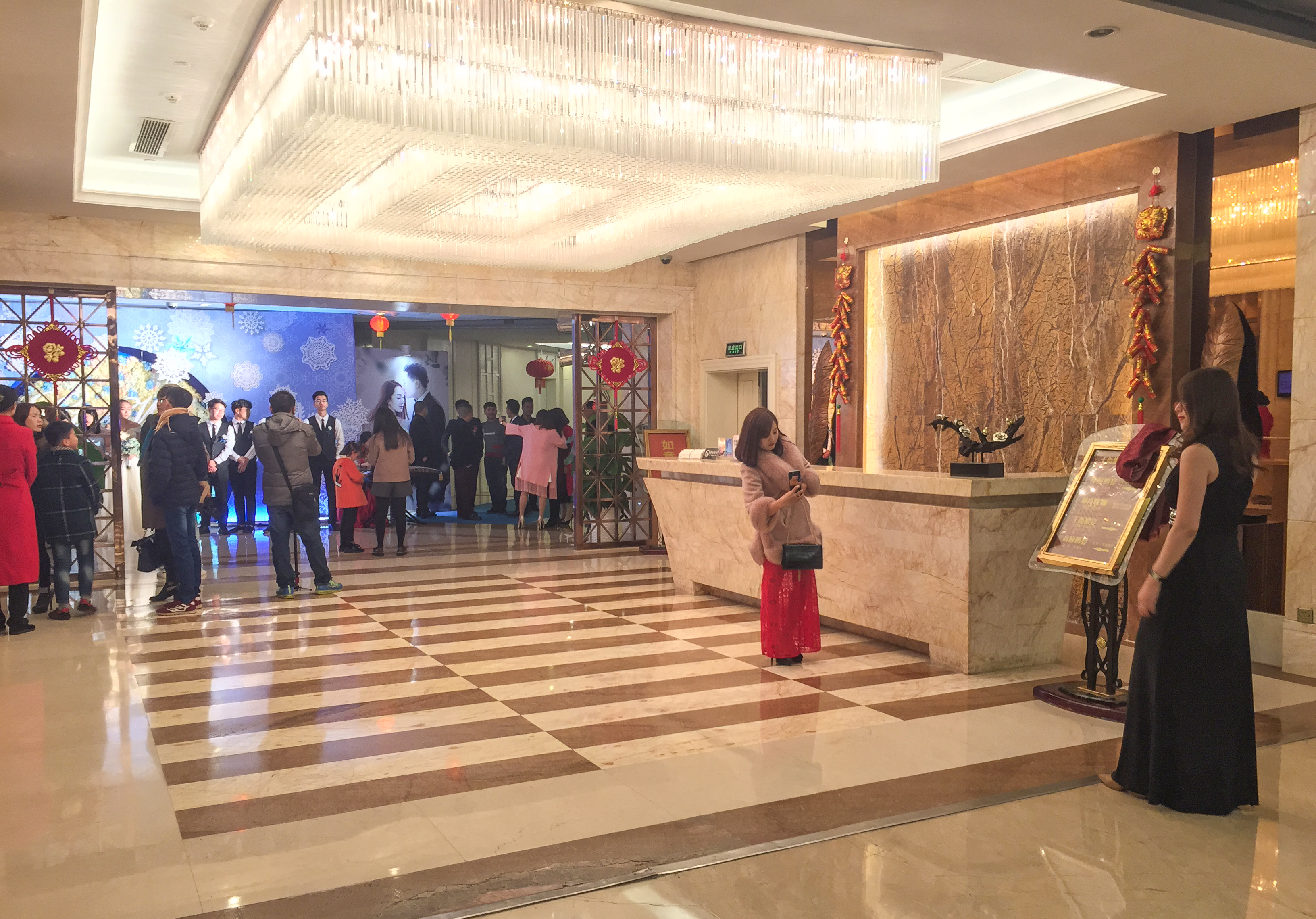 At least three weddings in one hotel. Formal attire of course.